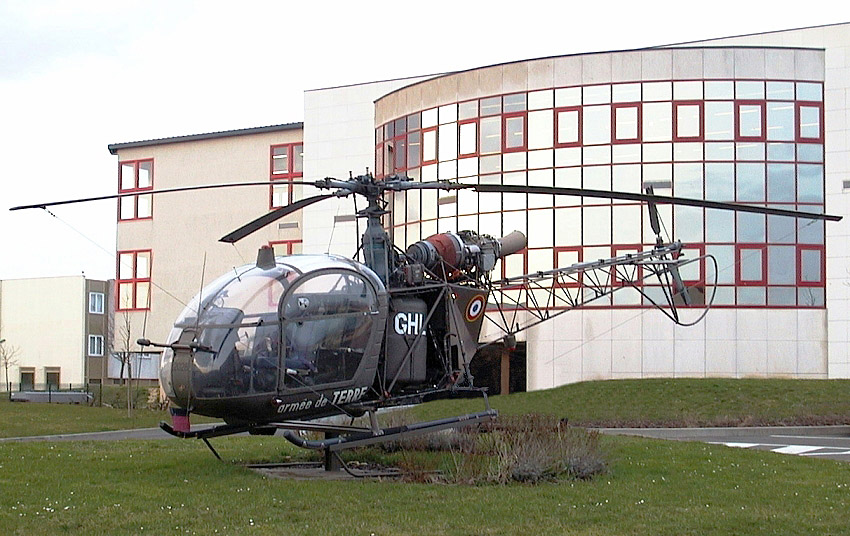 Helicopter Sud-Aviation SE 3180 Alouette II #2028 of the French Army Light Aviation (ALAT).